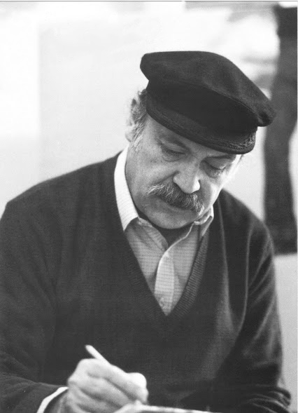 Derivative work from Enrique Sobisch jpg